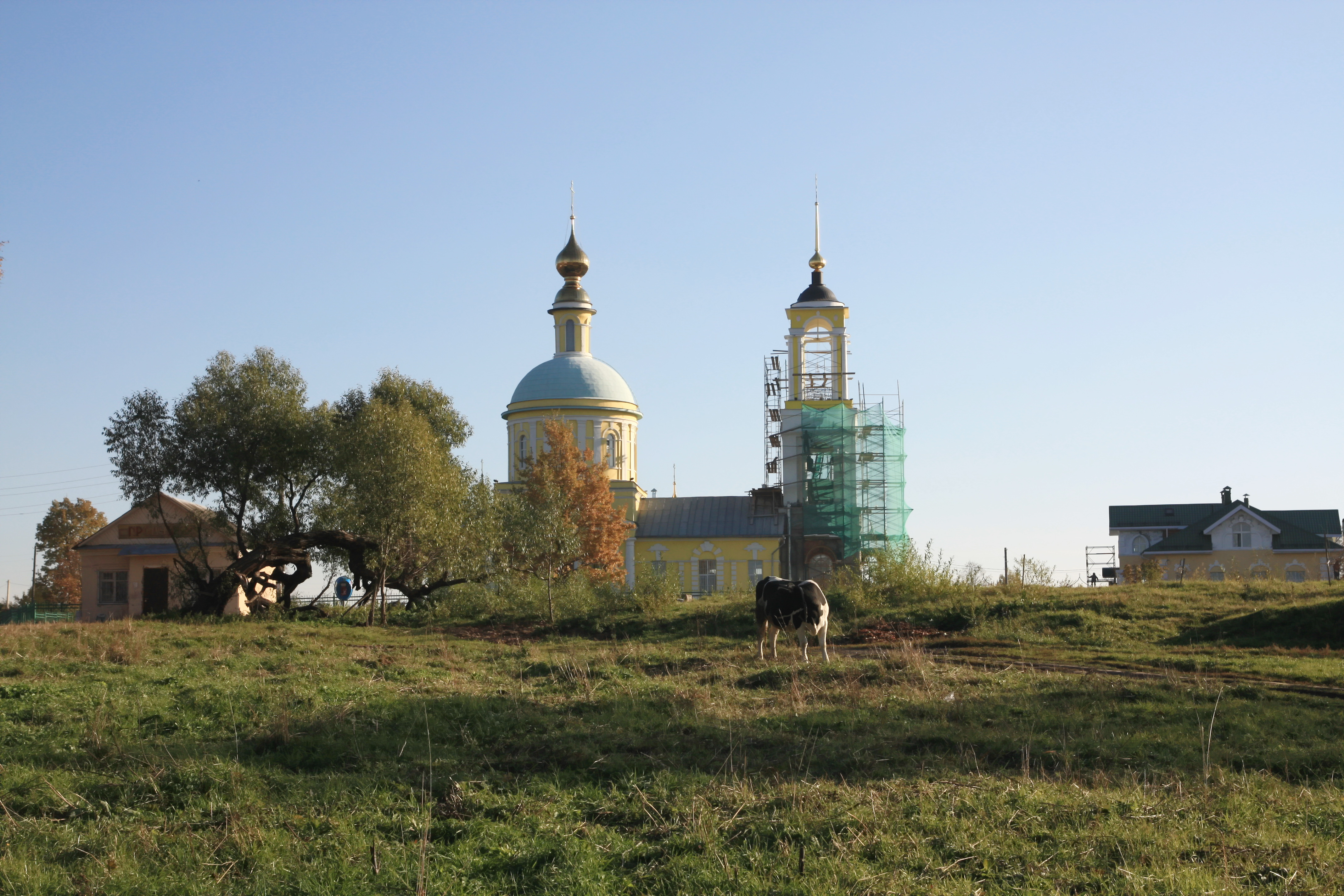 a "village green" of Buzhaninovo village with St.Nicholas church at the background